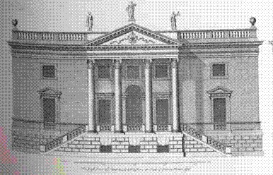 Engraving from Colen Campbell, Vitruvius Britannicus vol. 3, 1725.